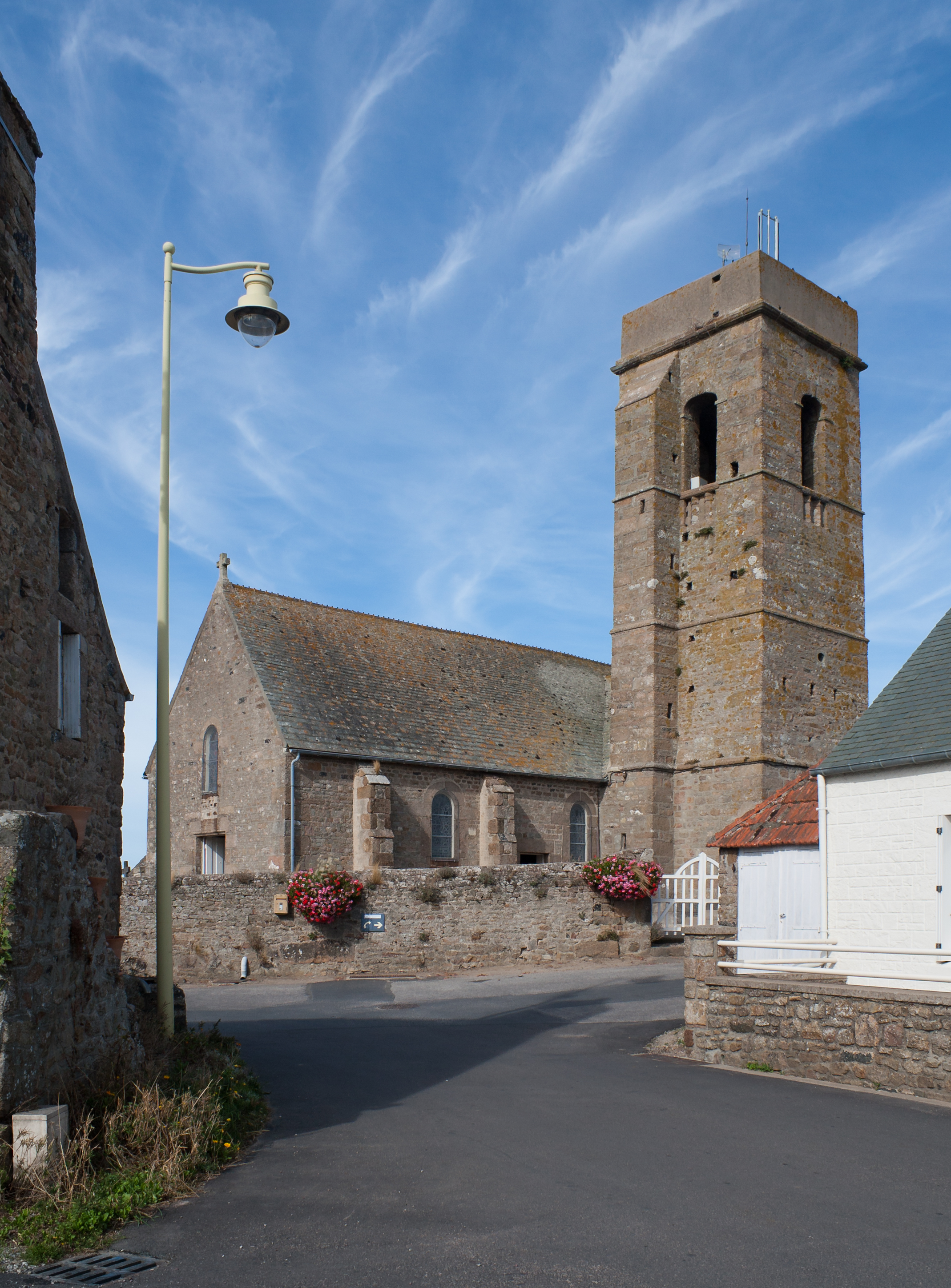 South-west view of the parish church in Réthoville.